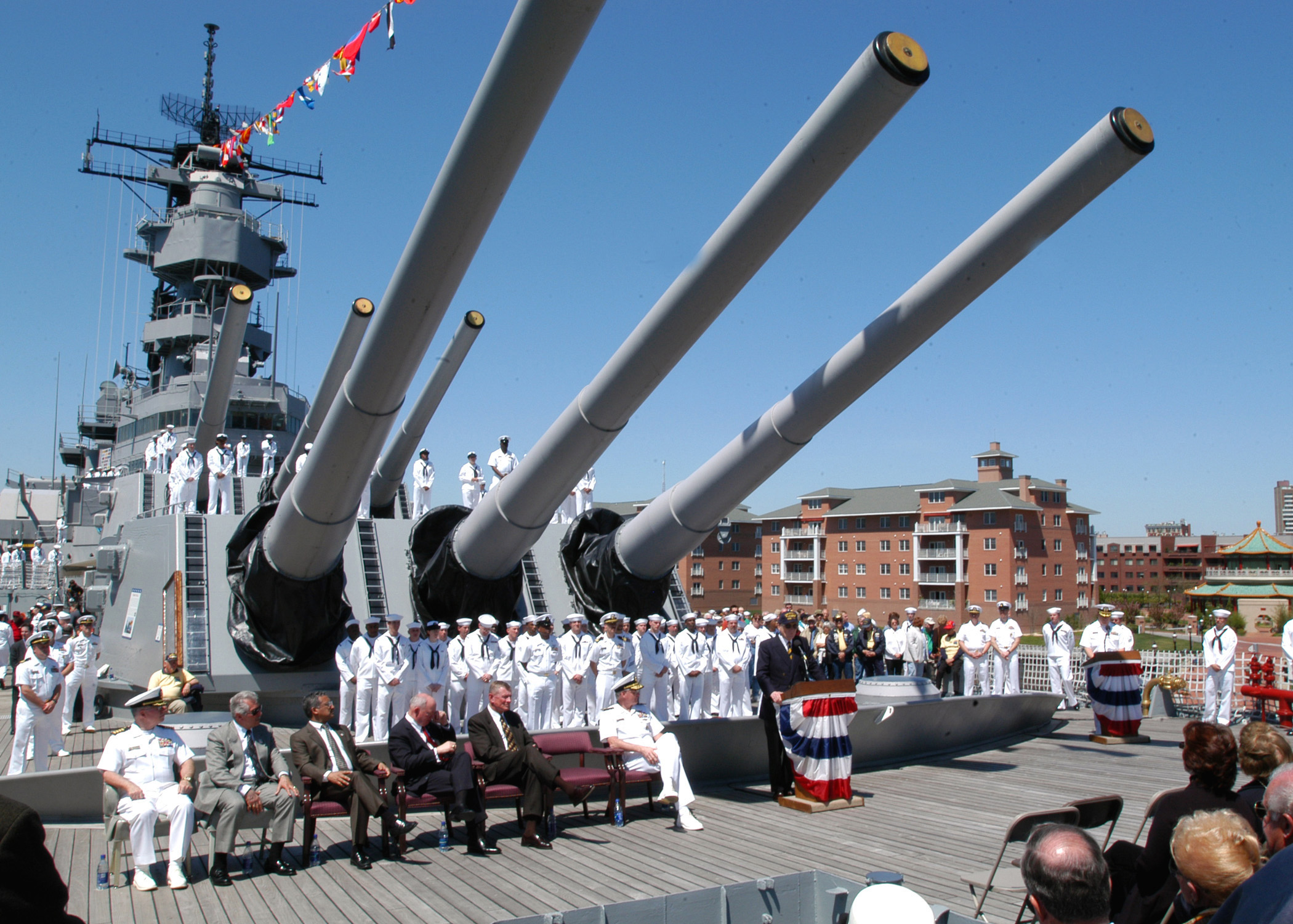 Norfolk, Va. (Apr. 16, 2004) - Virginia Senator John Warner addresses the crowd aboard USS Wisconsin (BB 64) during its 60th anniversary of the battleship's commissioning. Wisconsin is berthed as an exhibit at the Hampton Roads Naval Museum, located at Nauticus, in Norfolk, Va. U.S. Navy photo by Photographer's Mate Airman Aaron Burden. (RELEASED)